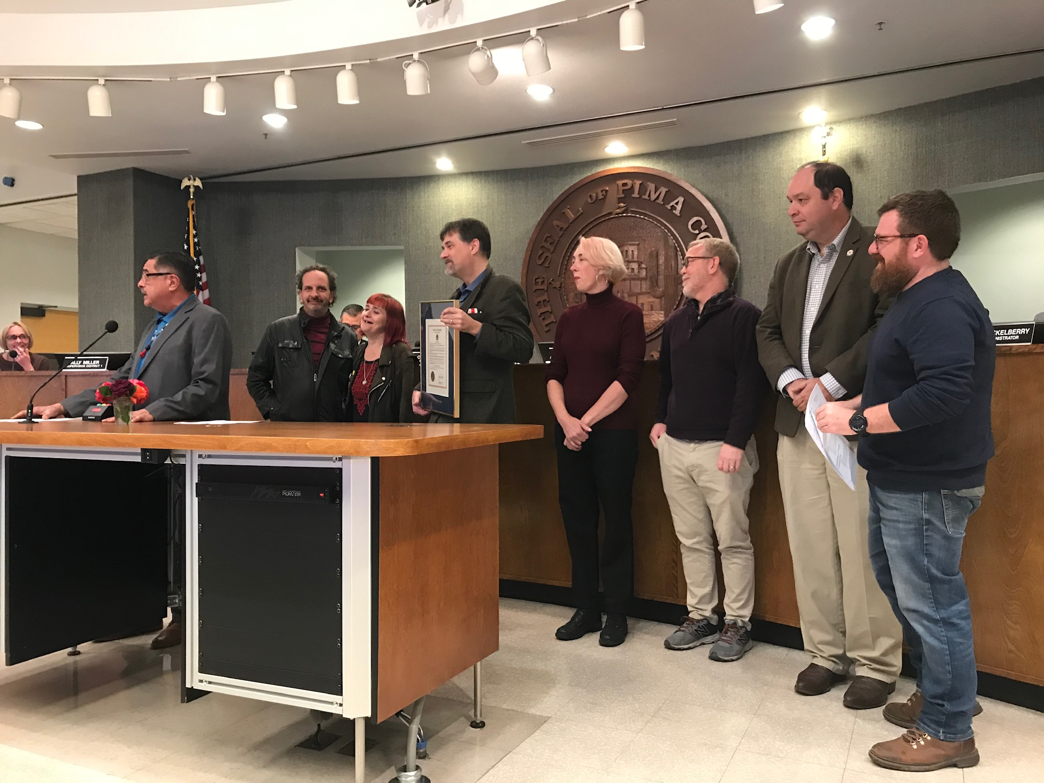 Staff from Tucson Sentinel receive an award from the Pima County Board of Supervisors, January 2020